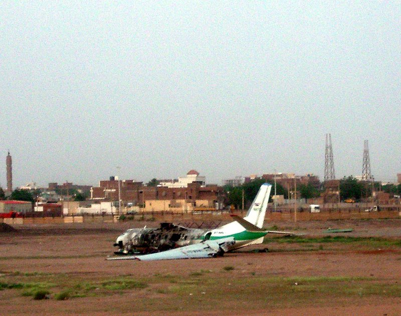 Original caption states "The kind of thing that makes you oh so happy to fly in and out of Khartoum International Airport. Pushed off the side of the runway. "